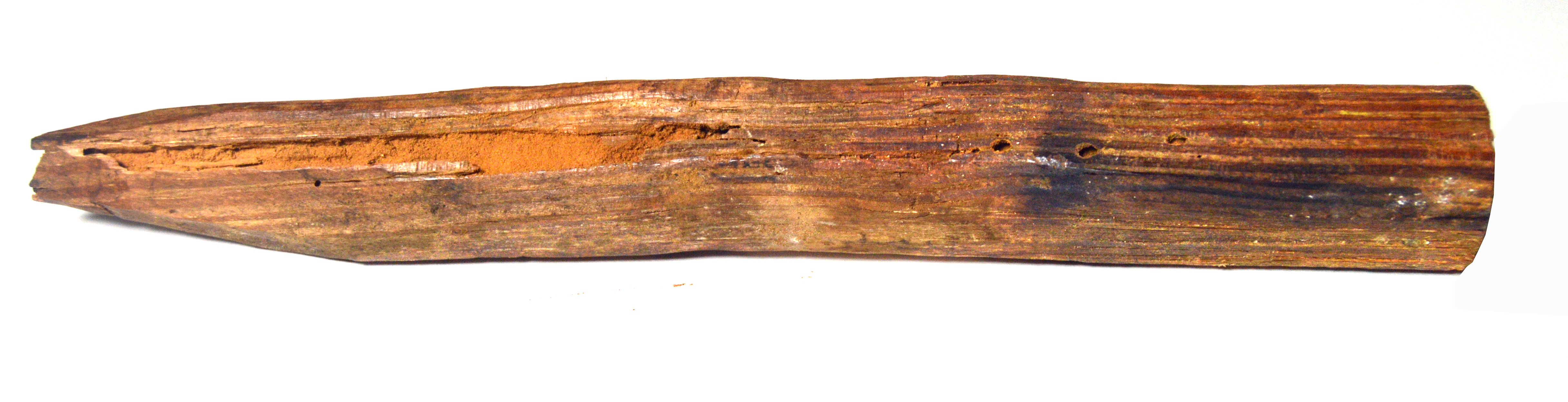 Hand cut wooden house construction dowel. 8""